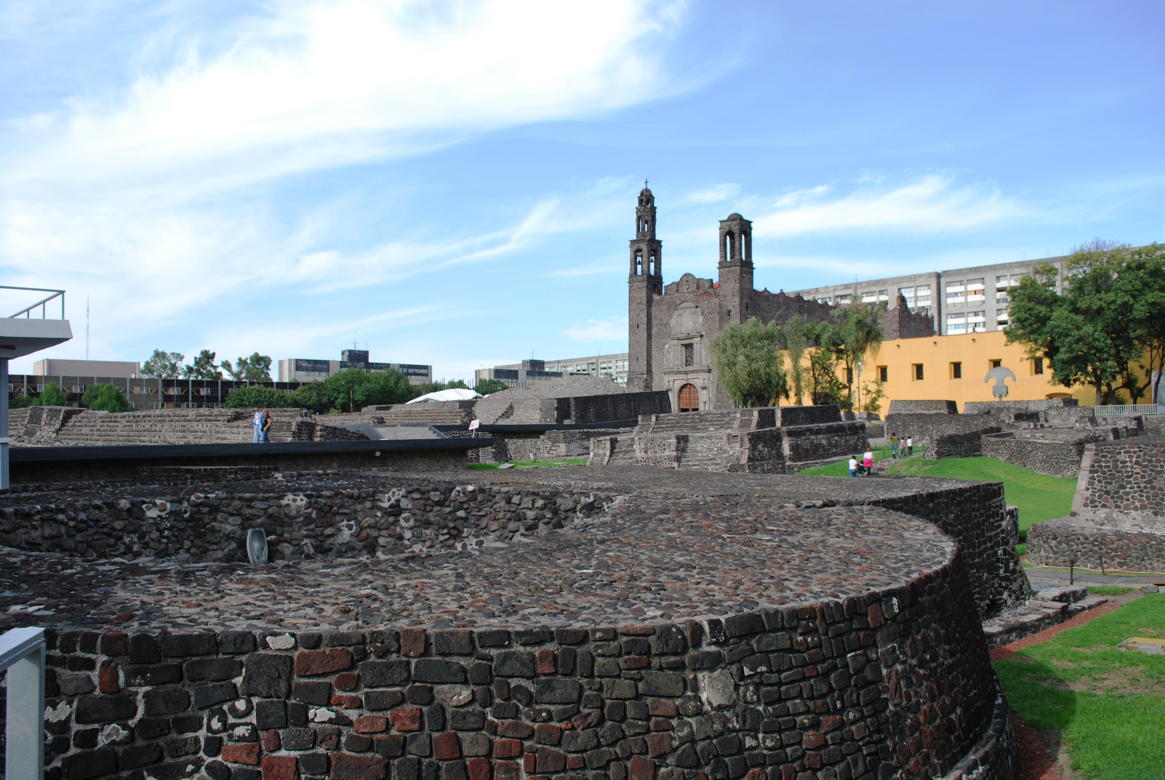 View of the Tlatelolco archeological zone from the entrance at the southwest corner